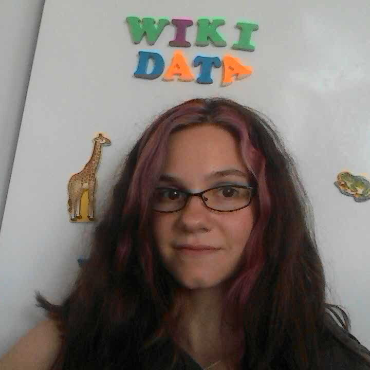 mvolz wikidata selfie